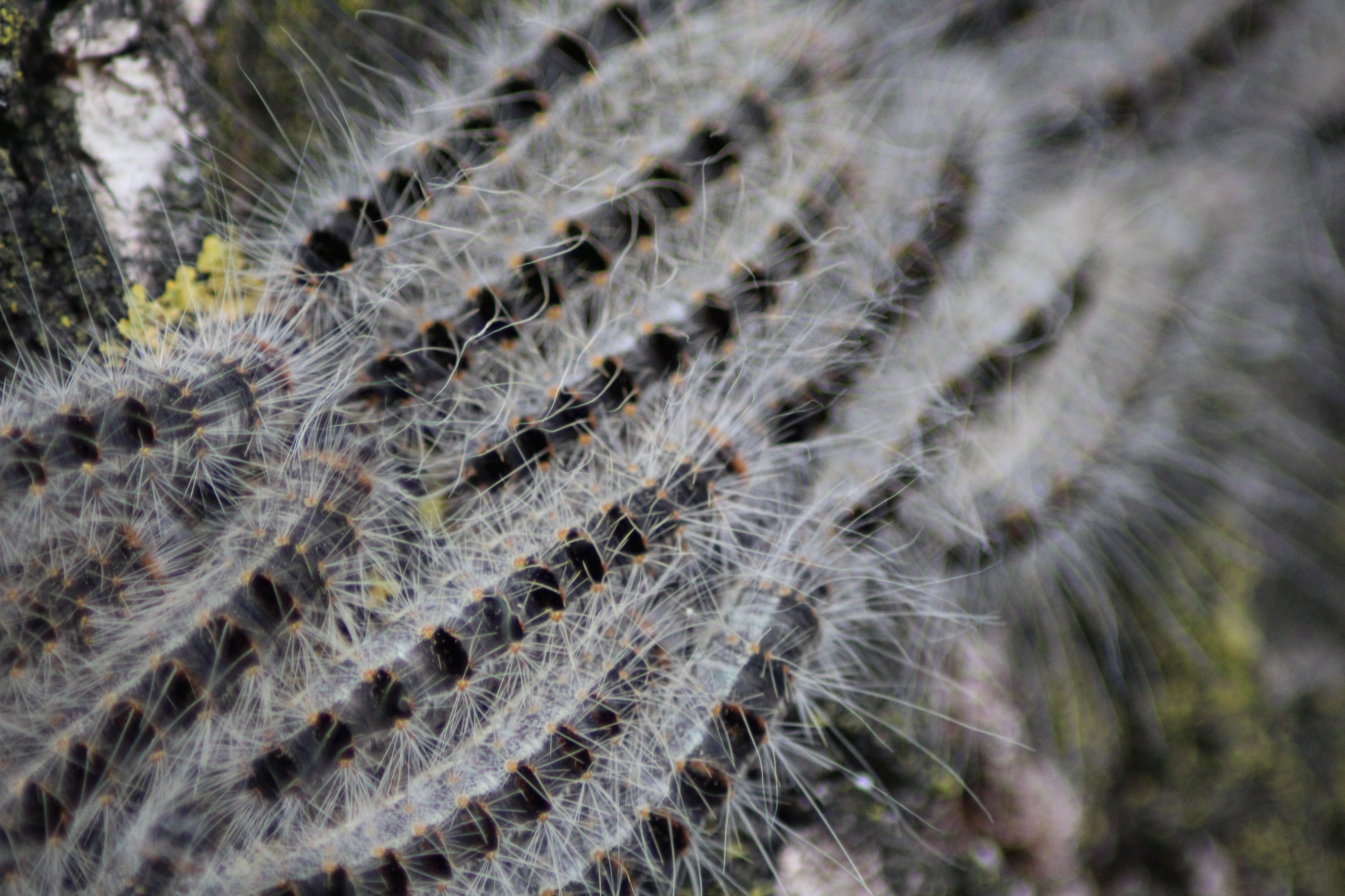 Thaumetopoea processionea in procession around an oak tree.